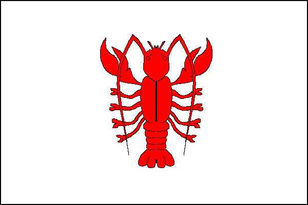 Municipal flag of Rakovník town, Czech Republic.